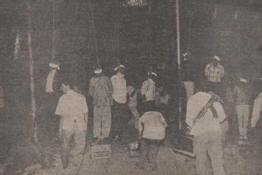 Hangings during the Saddam regime in Iraq.